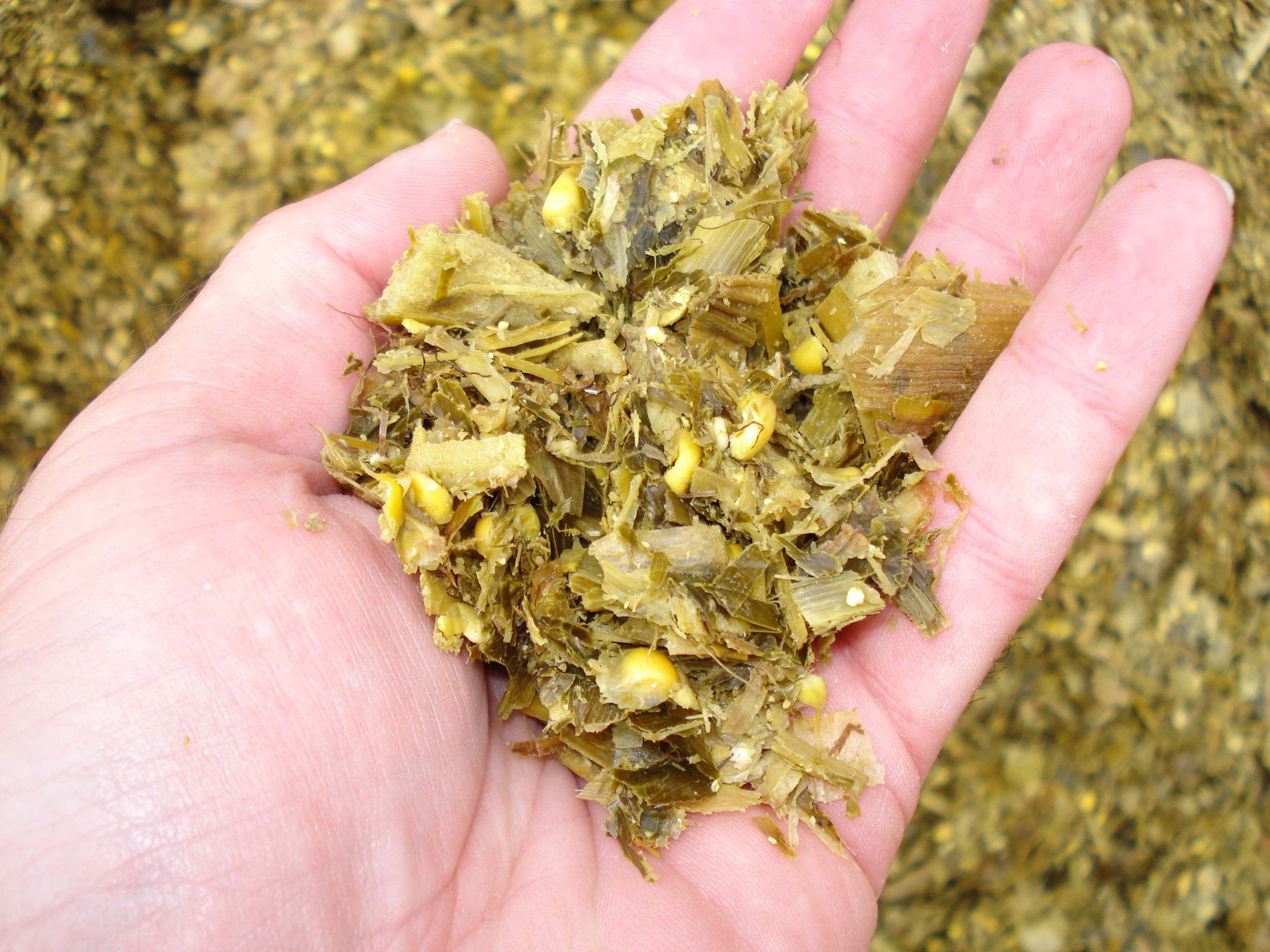 A hand full of maize silage